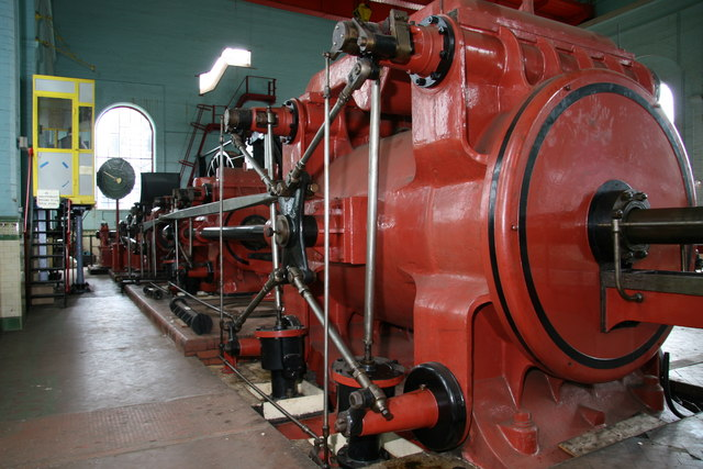 Monstrous steam engine, built by Head Wrightson of Stockton-on-Tees. Astley Green Colliery Museum, Astley Green, nr Wigan, Lancashire